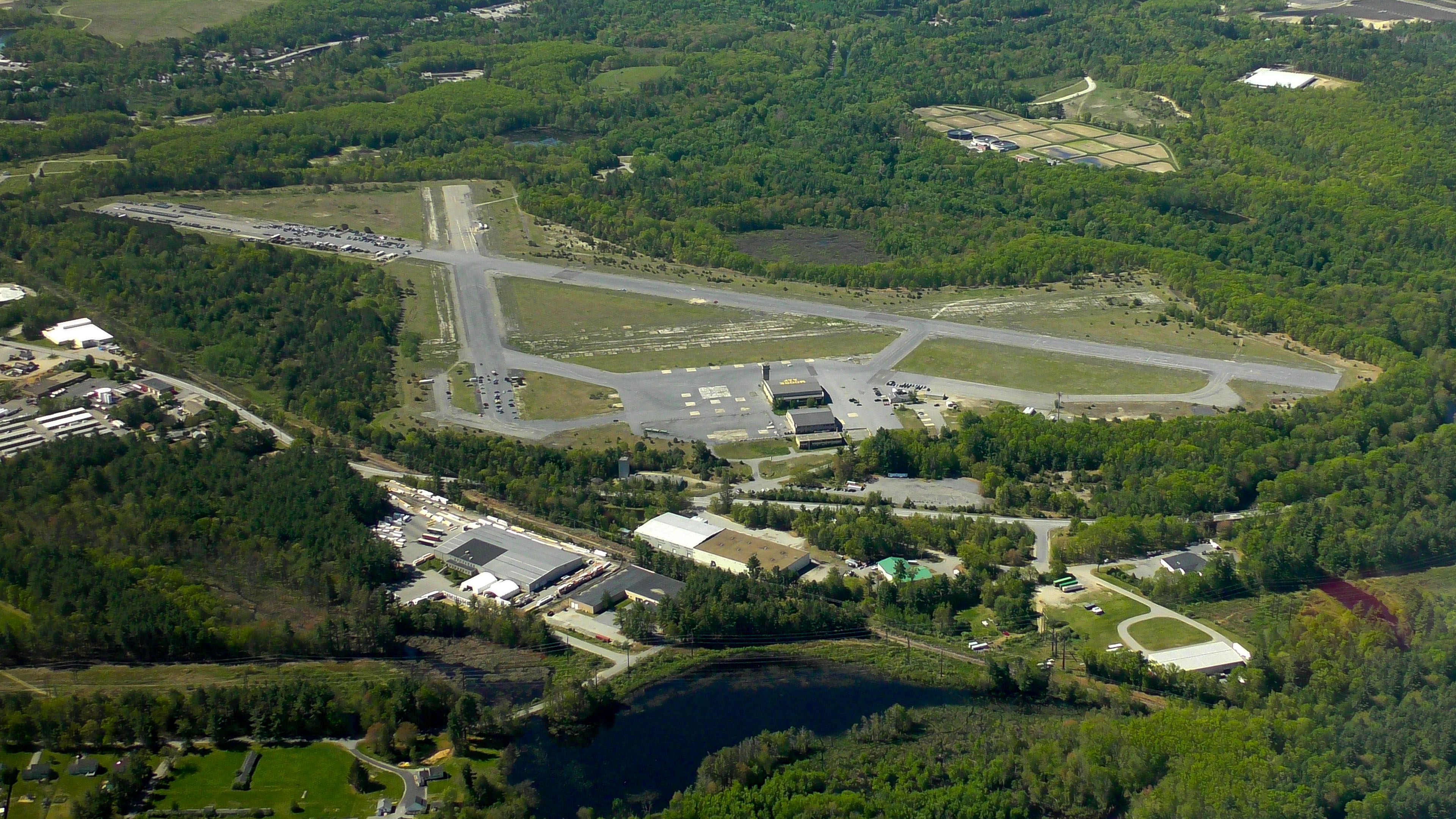 Aerial Photo of Moore Army Airfield at Fort Devens, MA as of May, 2017. The airfield was closed to aircraft in 1995.